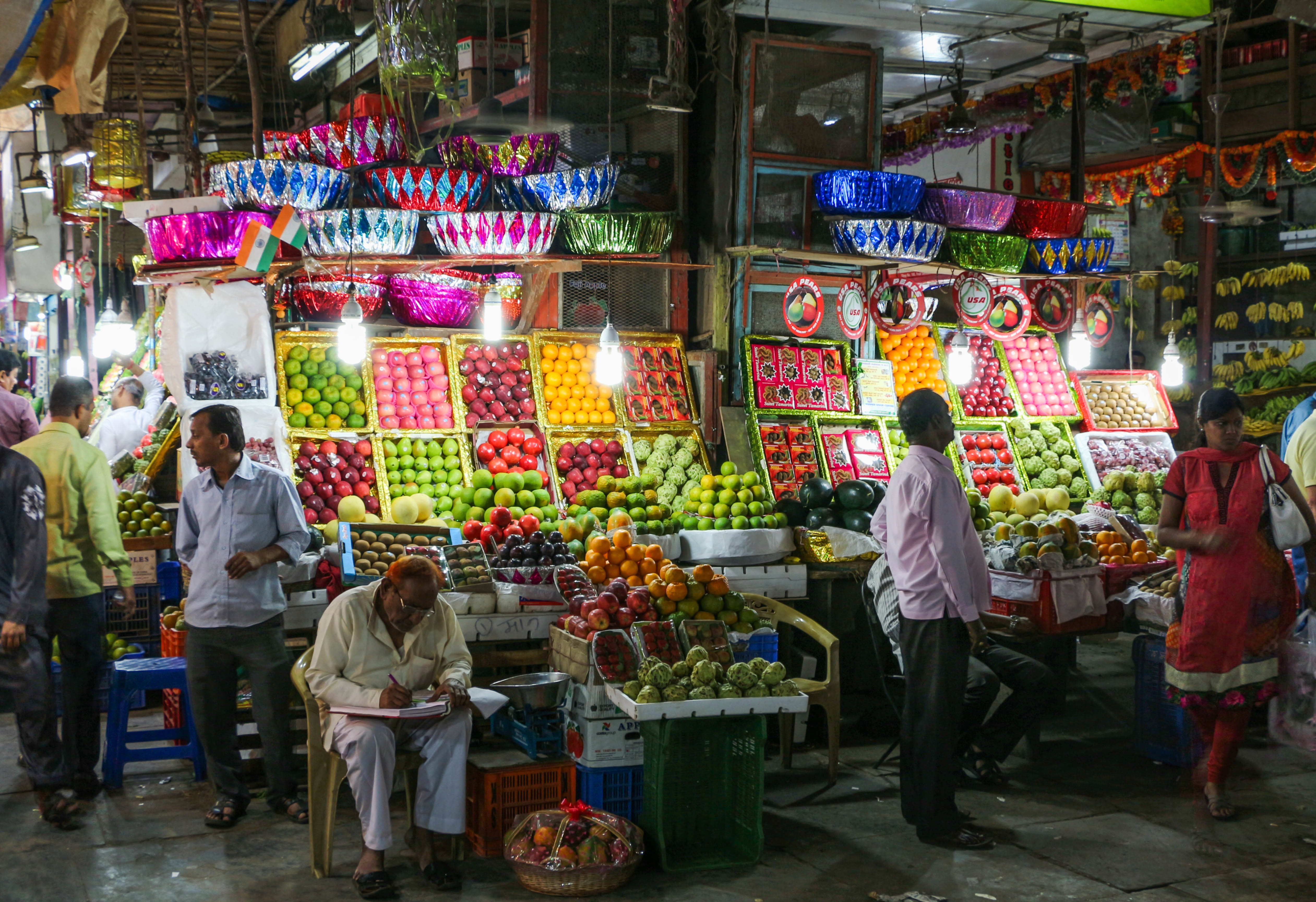 Fruits in Crawford Market, Mumbai, India